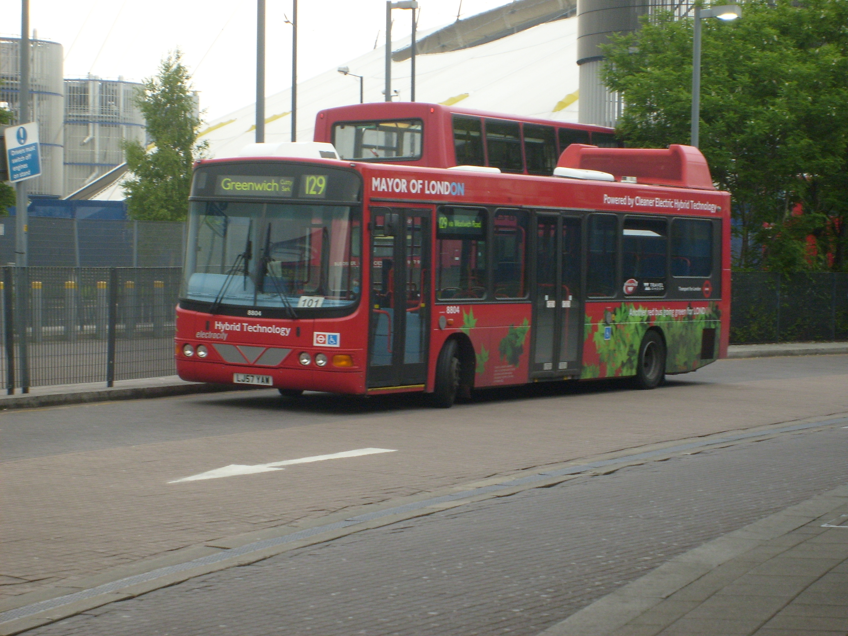 Travel London's 8804 (LJ57 YAW), a Wright Electrocity at North Greenwich on London Buses route 129.